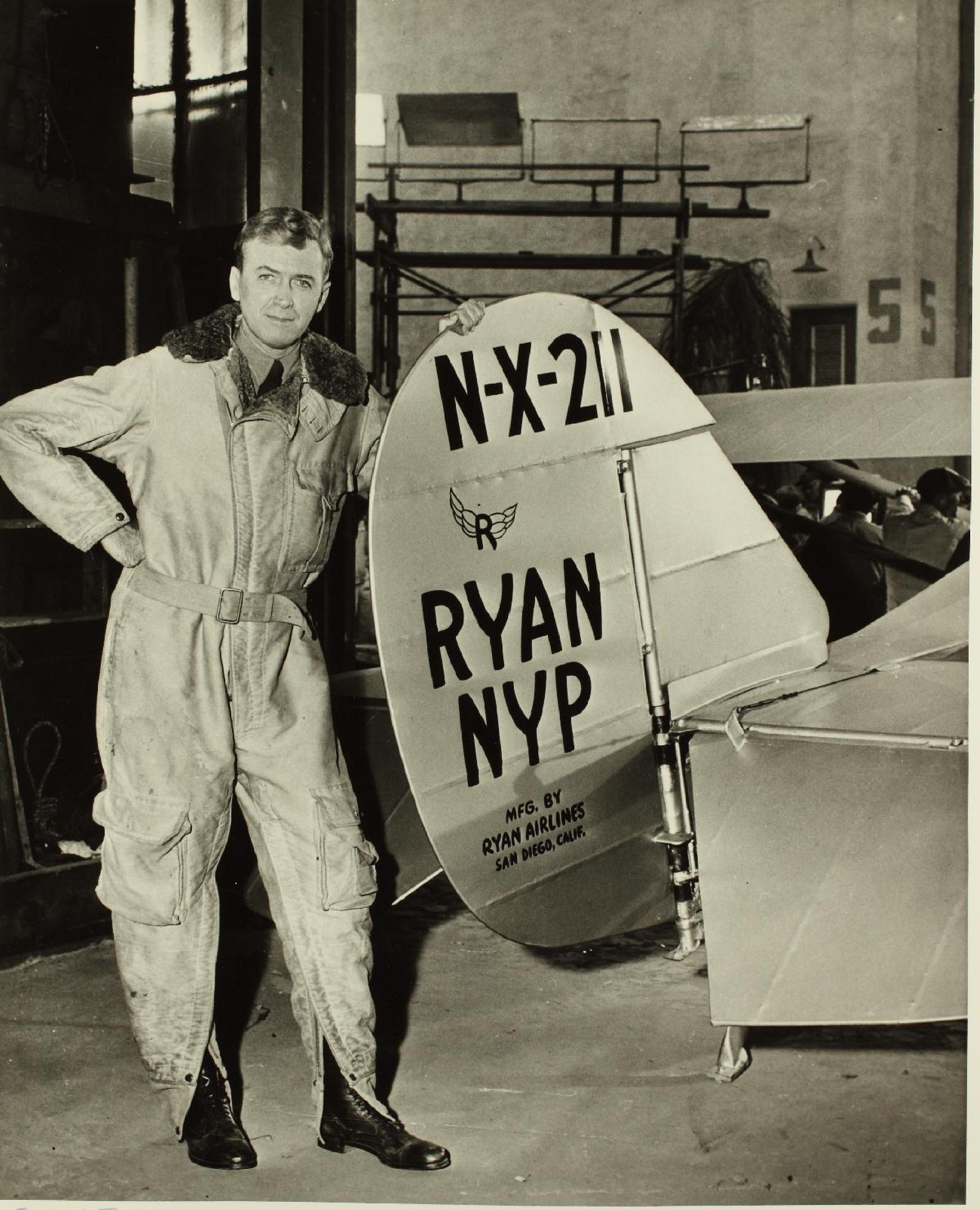 Jimmy Stewart as Charles Lindbergh with the replica of the "The Spirit of St. Louis" for the film of the same name. Catalog #: 04_03405 Album: 34 Ryan Neg: 37470 Album Name: Movie Spirits - Vol 1 Page Number: 8 Repository: San Diego Air and Space Museum Archive